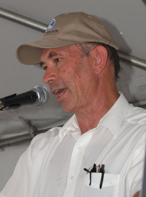 Wally Rippel, Tesla Motors engineer, at South Pasadena Clean Car Show on July 22, 2007. Mr Rippel was a guest speaker at the event.